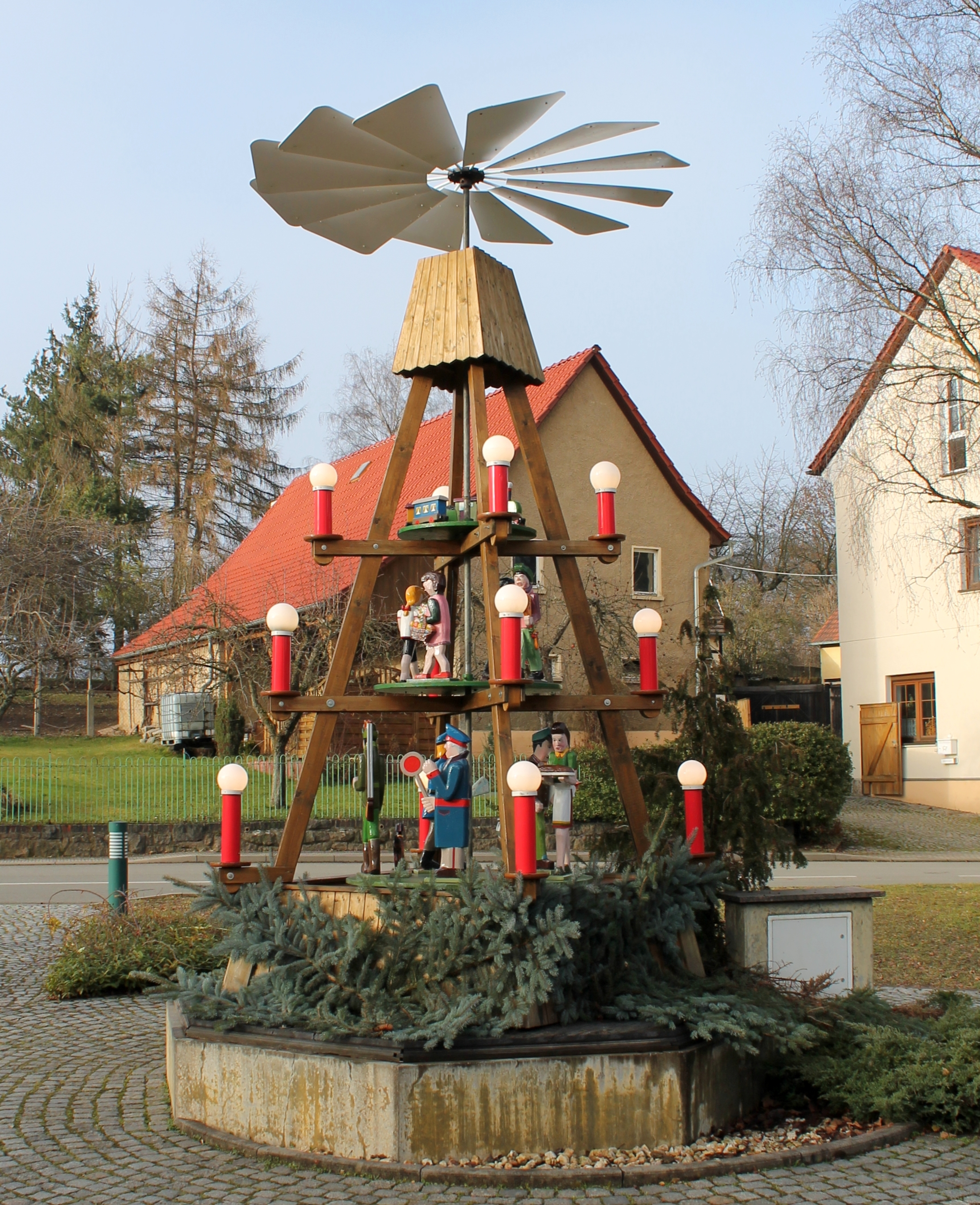 Outdoor christmas pyramid in Ebersbrunn, Lichtentanne, Saxony, Germany.